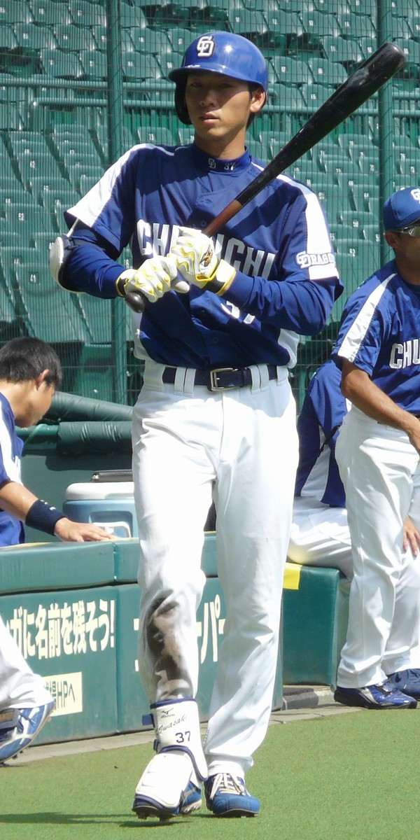 Kyohei Iwasaki, infielder of the Chunichi Dragons, at Hanshin Koshien Stadium.